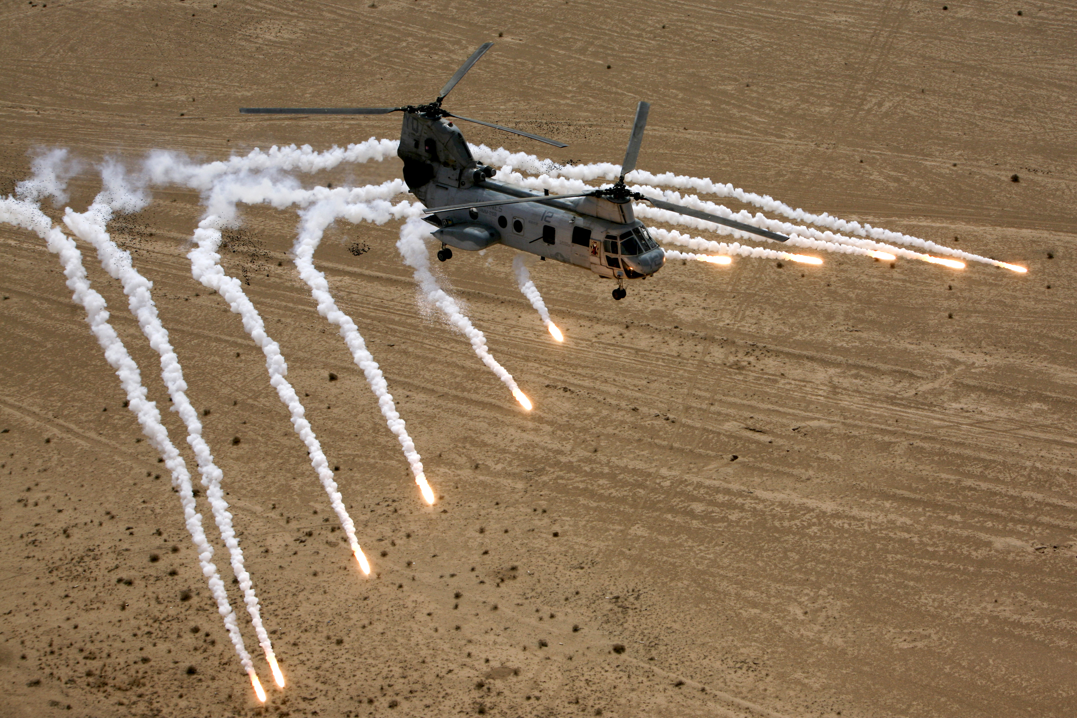 A CH-46 Sea Knight helicopter from Marine Medium Helicopter Squadron 268 launches flares over Al Taqqadum, Iraq, February 24, 2008. HMM-268 is deployed with Multi National Force - West in support of Operation Iraqi Freedom in the Al Anbar province of Iraq.